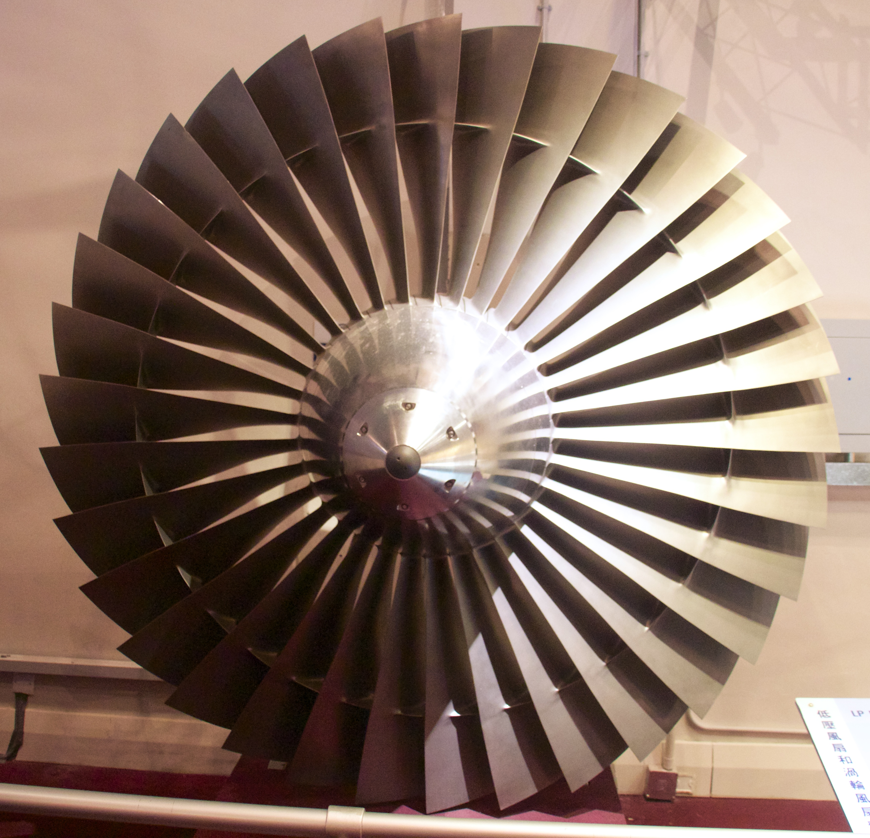 Rolls Royce RB211 Turbofan engine low pressure (LP) fan. At Hong Kong Science Museum.